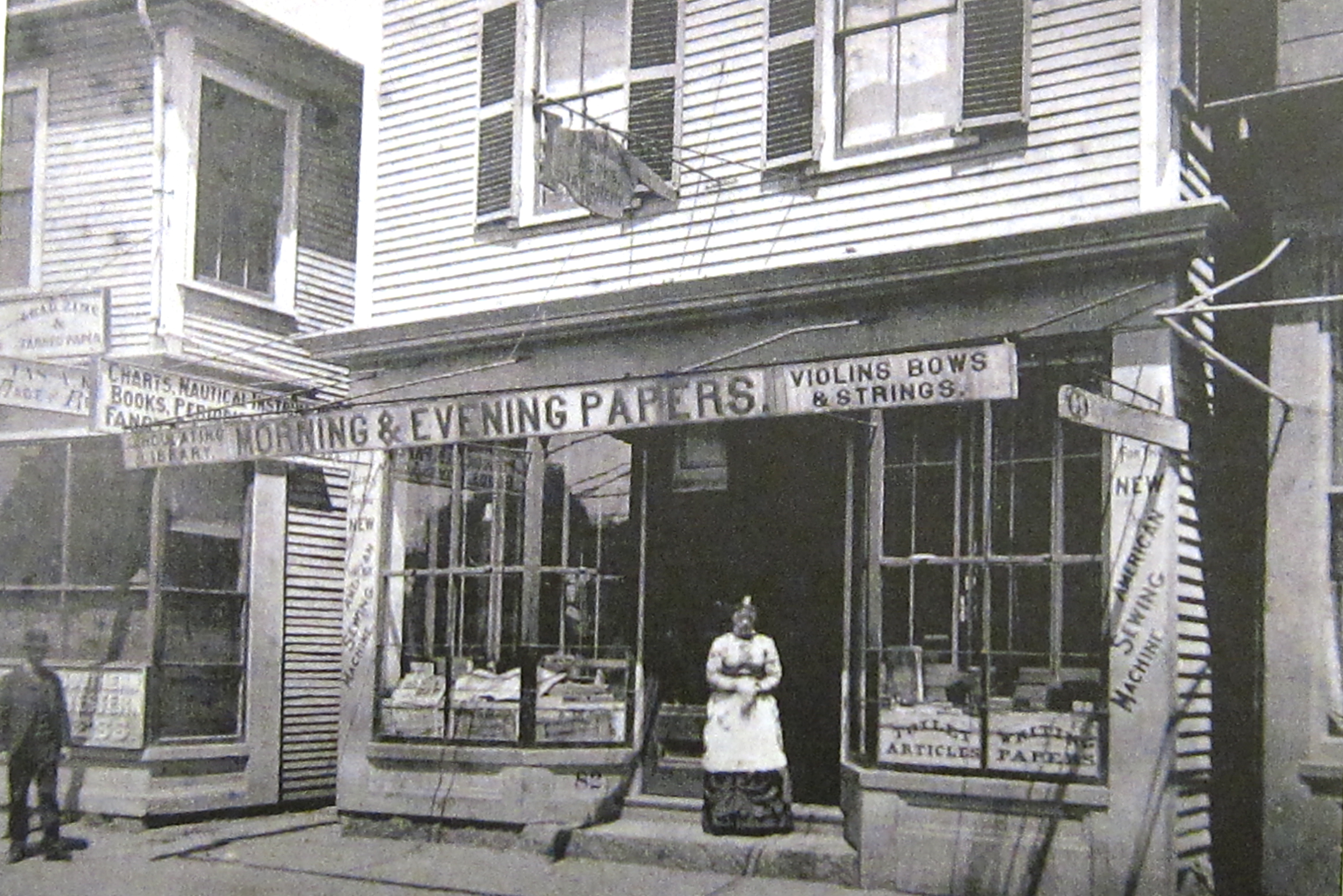 Gloucester, Massachusetts, USA. Depicts shop sign: "Circulating Library. Morning & evening papers. Violin bows & strings."